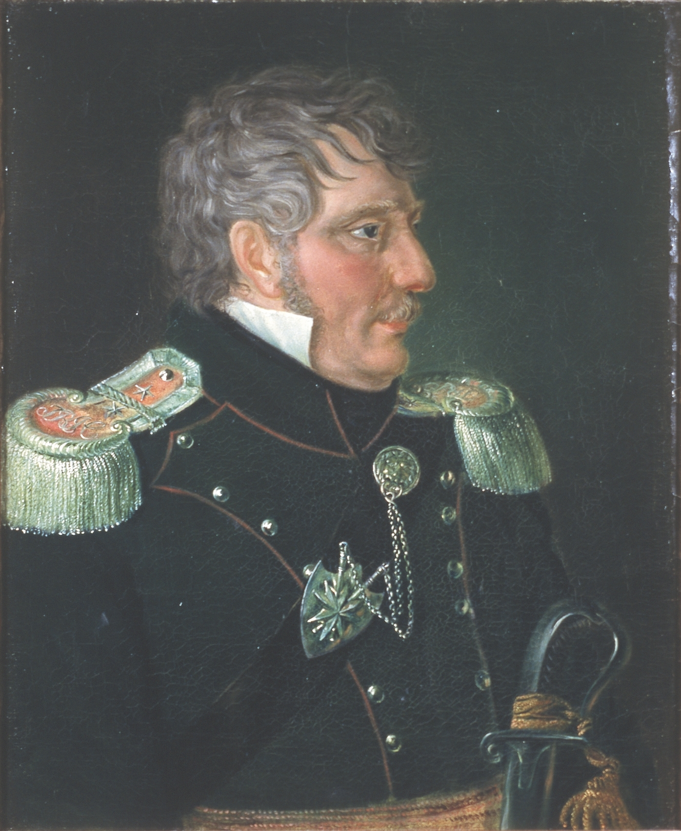 unsigned portrait of Frederik Heidemann, painted by Stoltenberg after a smaller version painted by Munch.